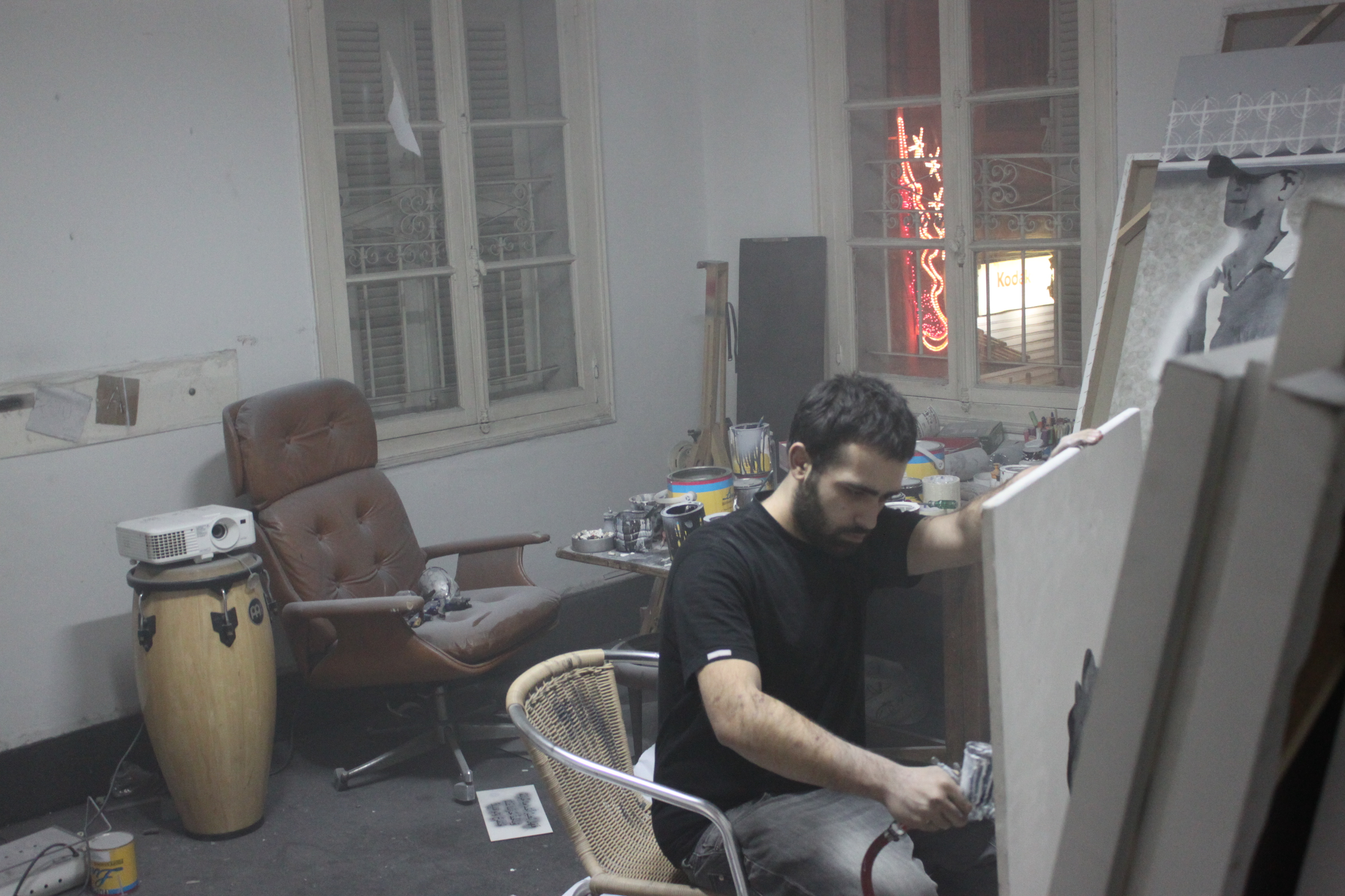 Ilya Dirani painting